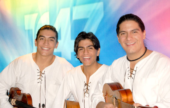 The Villalobos Brothers Perform at Telemundo 47 Television Networks